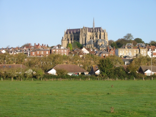 Arundel cathedral from the A27 Arundel bypass The cathedral and castle give a marvellous skyline when view from the south.